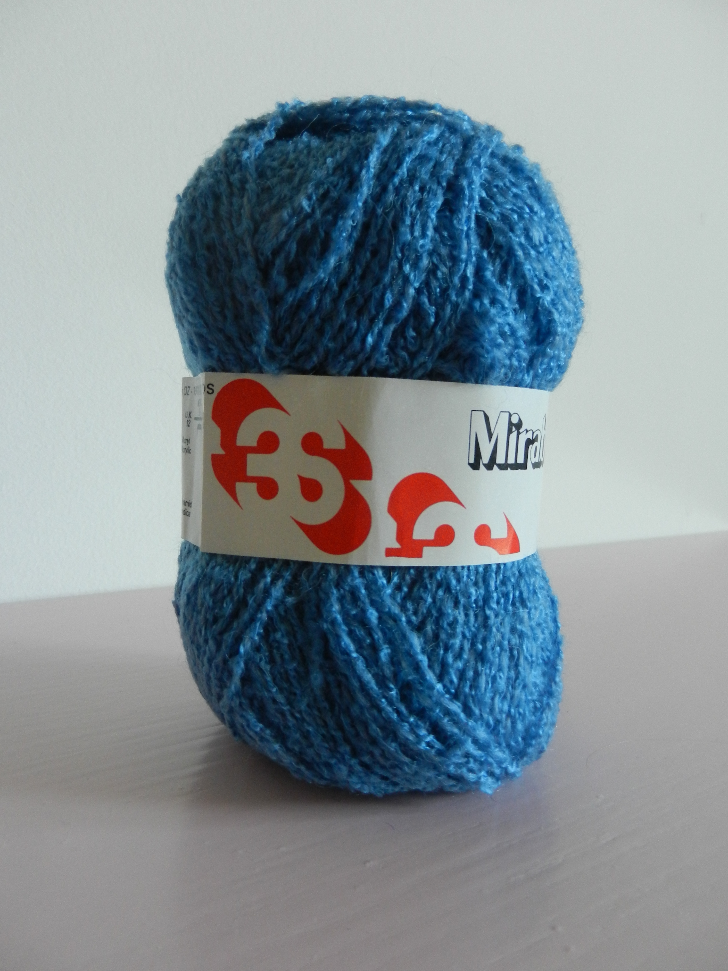 Wool yarn of 3 Suisses, brand Mirabelle.